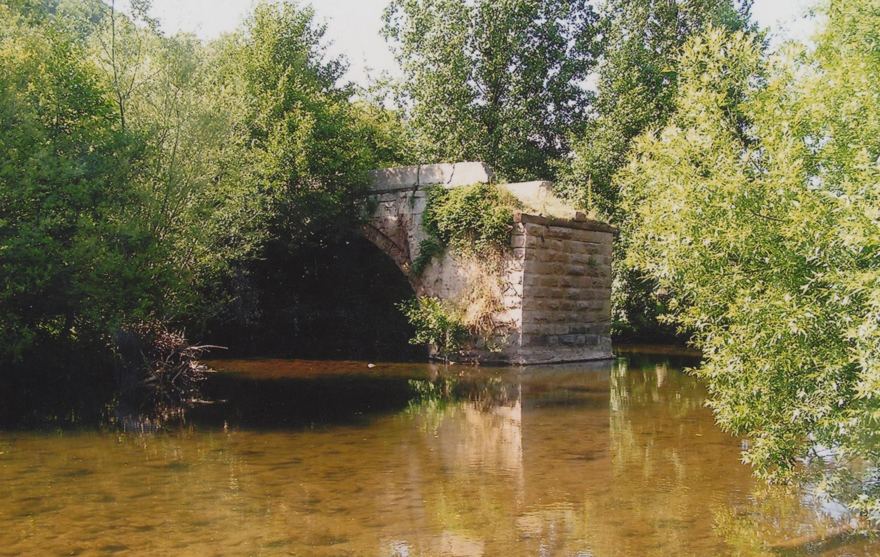 Beg bridge in Stanicenje